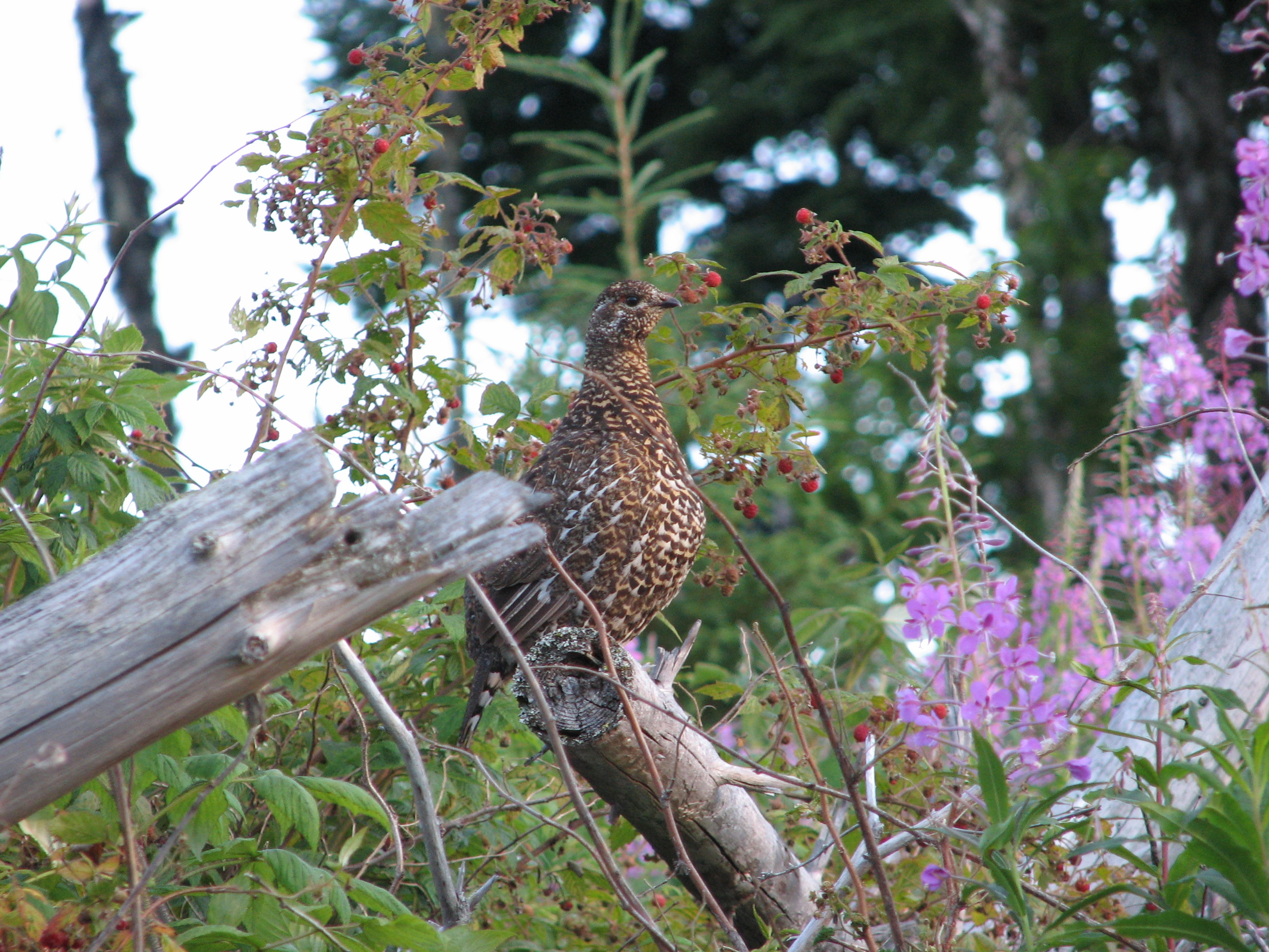 Spruce Grouse (Falcipennis canadensis), female in Matane Wildlife Reserve, Quebec, Canada, August 2005.